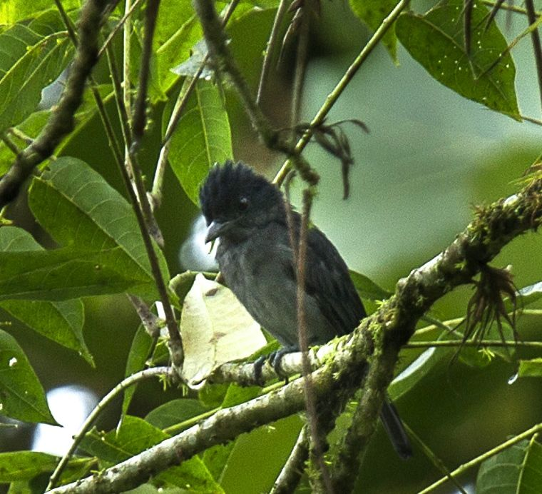 Slaty Becard (Pachyramphus spodiurus), South Ecuador